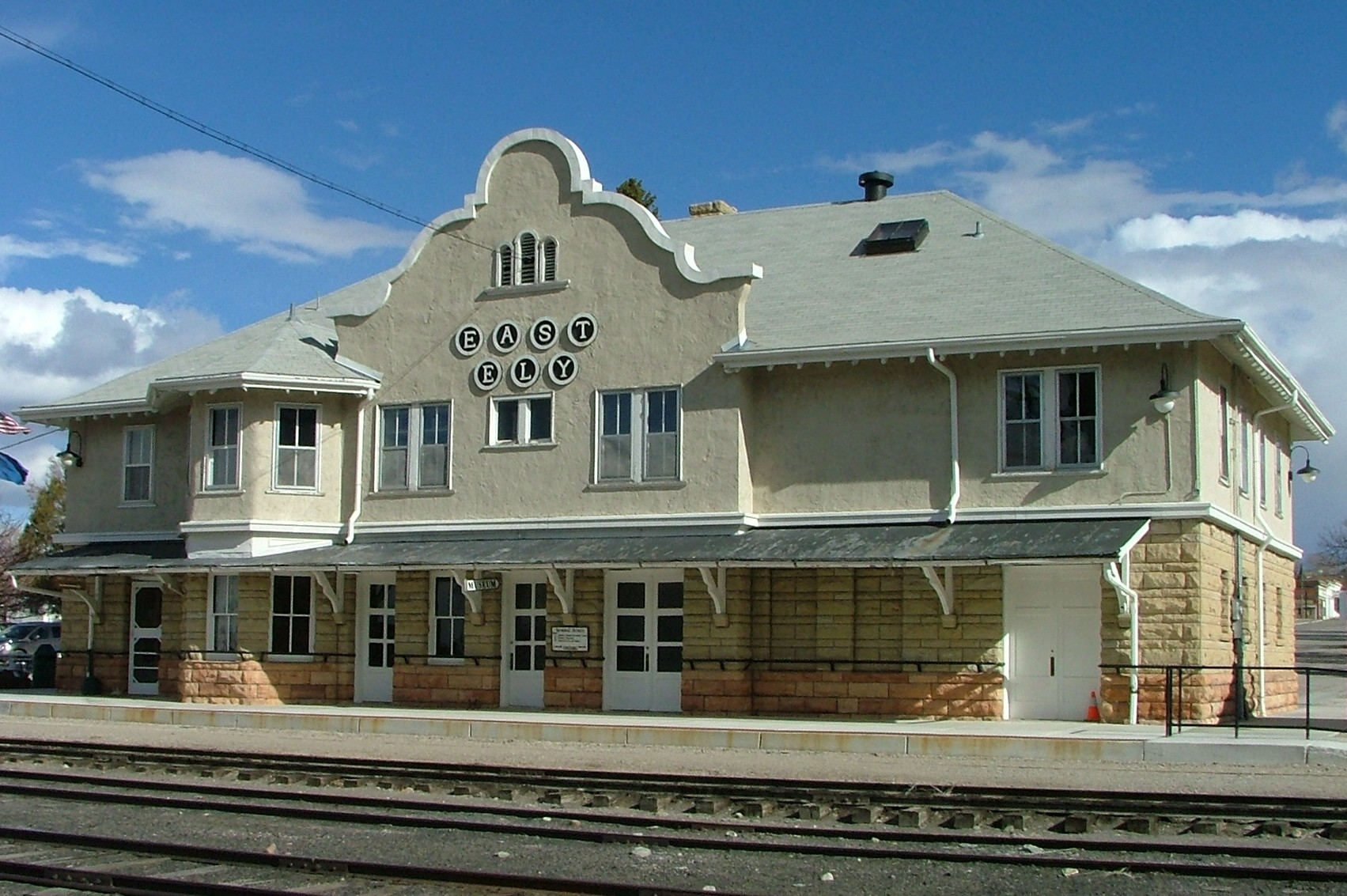 Restored 1907 Mission Revival-style depot, now part of the Nevada Northern Railway Museum, Ely, Nevada.